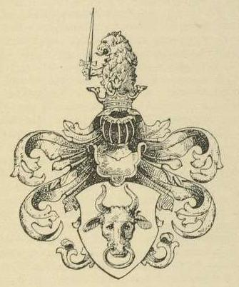 Coat of Arms Wieniawa from reprint of "Nomenclator" by Wojciech Wiiuk Kojałowicz, orginal work from 1658, reprint from 1905